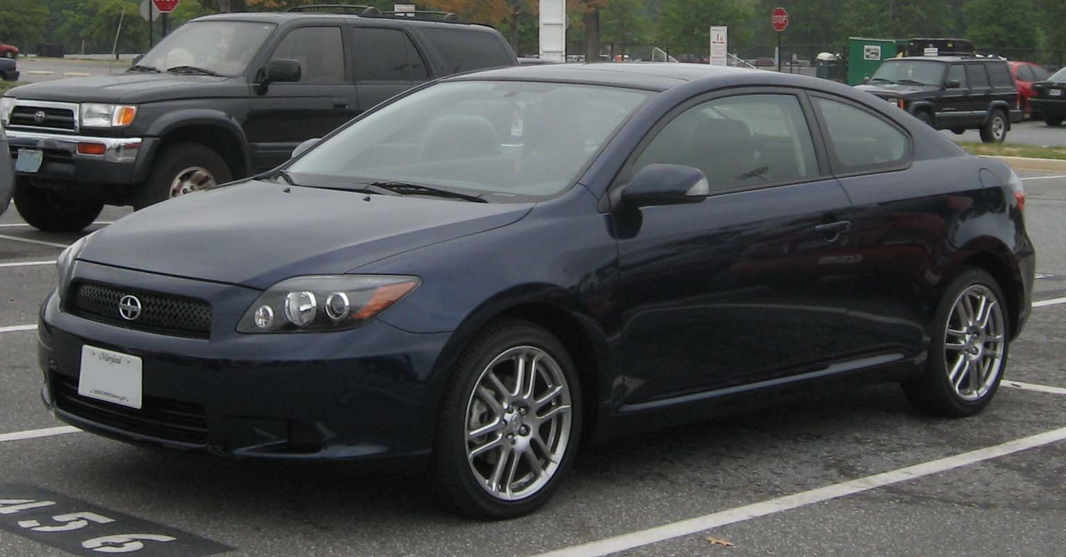 2008 Scion tC photographed in College Park, Maryland, USA.